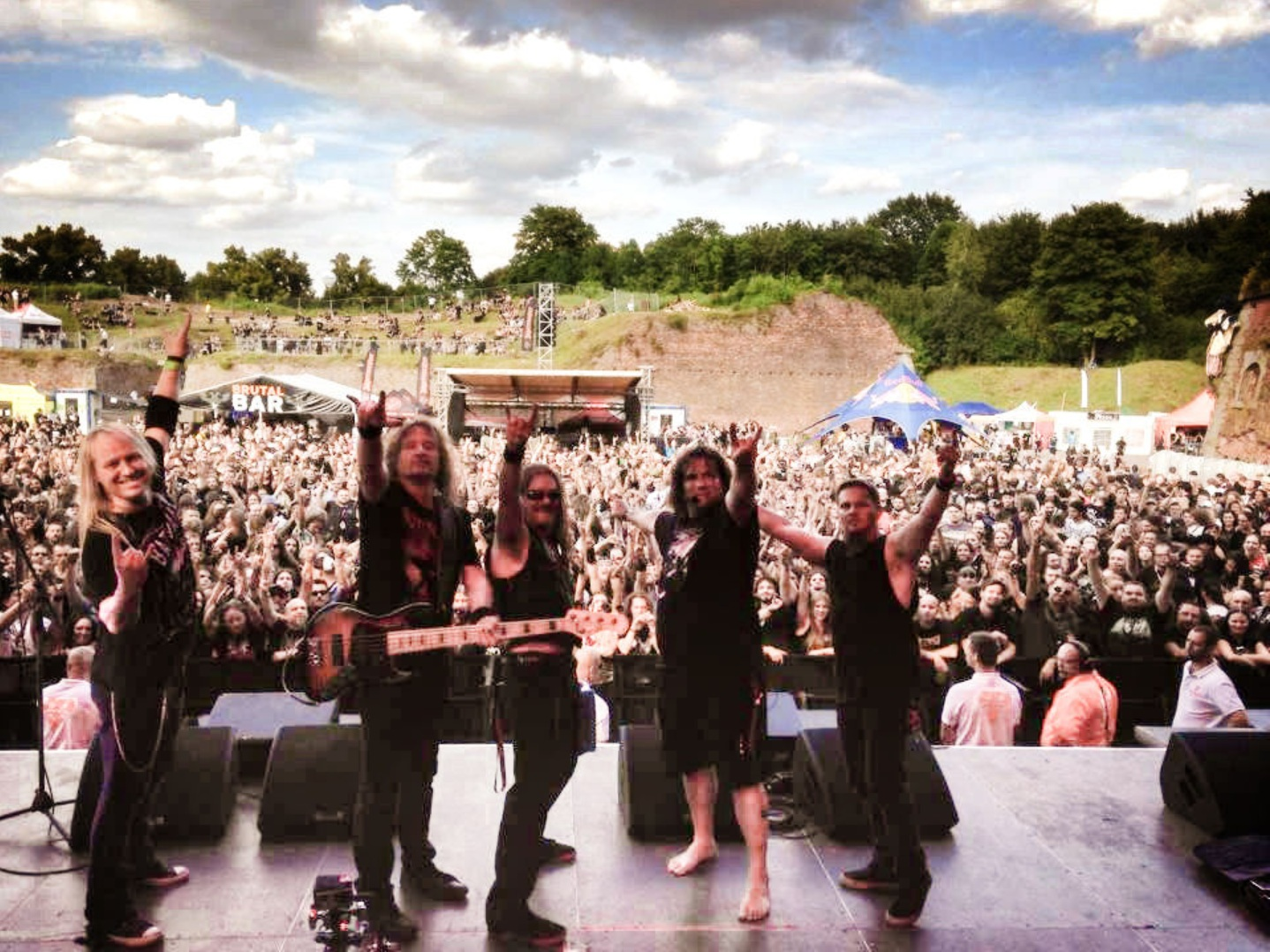 Brutal Assault Festival 2014